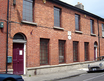 Photograph of the Jewish Museum of Ireland, Walworth Road, Portobello, Dublin.